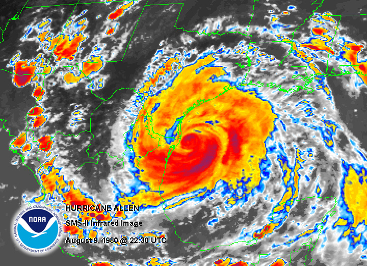 Colorized Infrared image of Hurricane Allen making landfall on August 9.